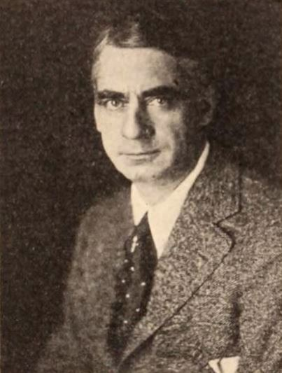 Actor Jules Cowles, on page 142 of the December 25, 1920 Exhibitors Herald.